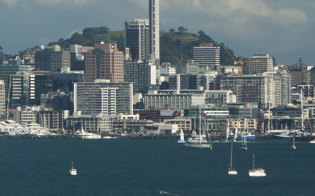 Mount Eden, Auckland, New Zealand - photo taken and uploaded by Paul Moss Photographer Artist NZ.